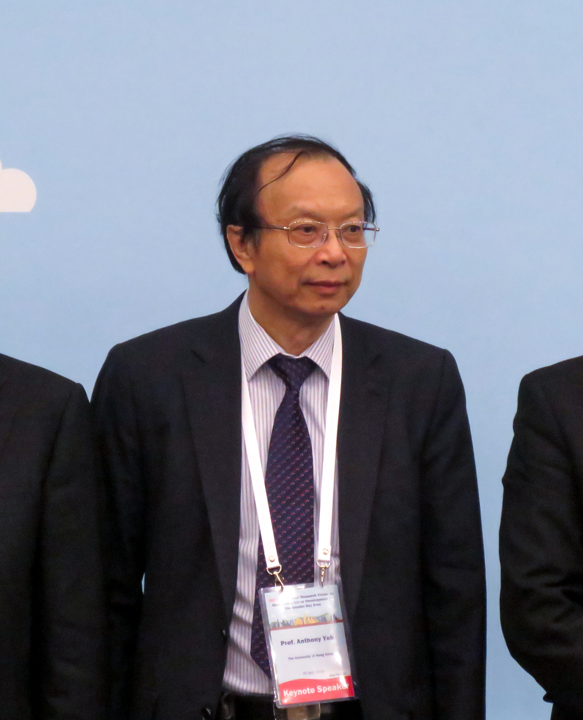 Anthony Yeh Gar-On, a professor of HKU, is one of the keynote speakers in this forum today.